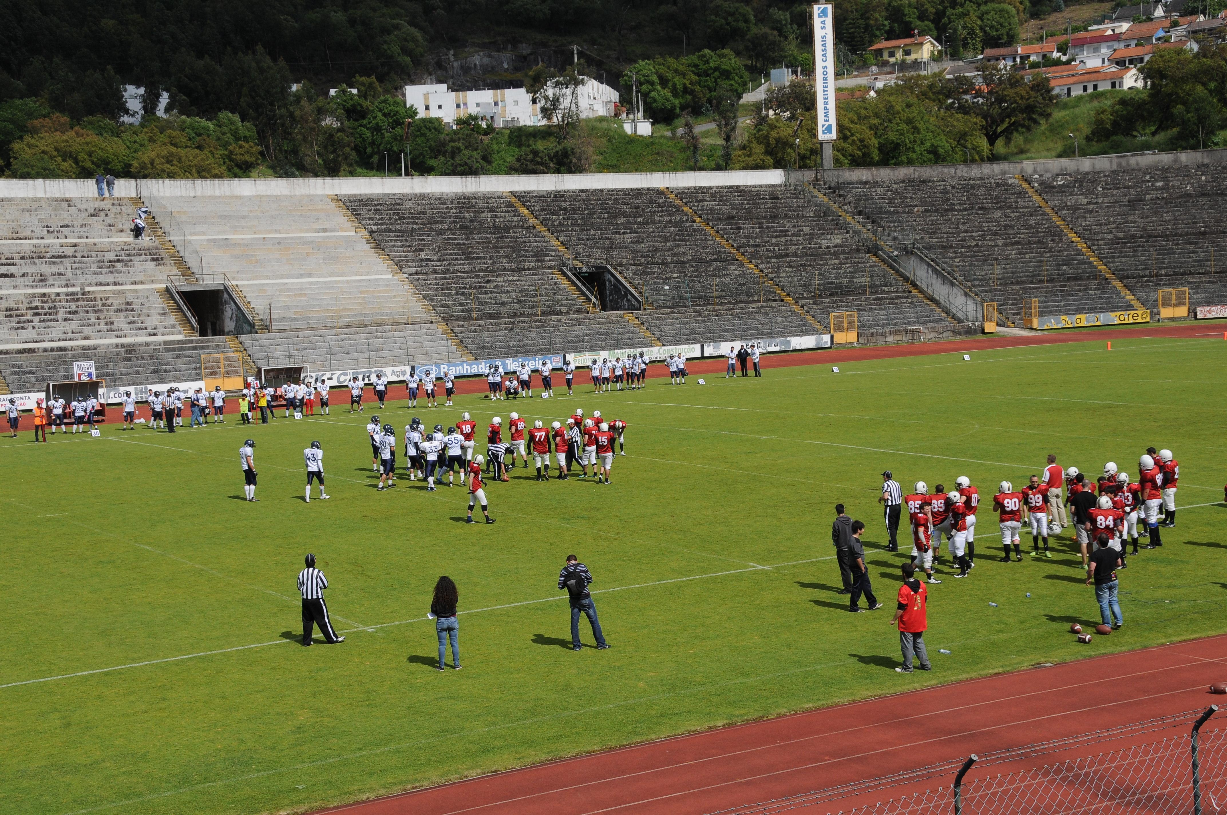 American football in 1.º de Maio stadium in Braga, Portugal.